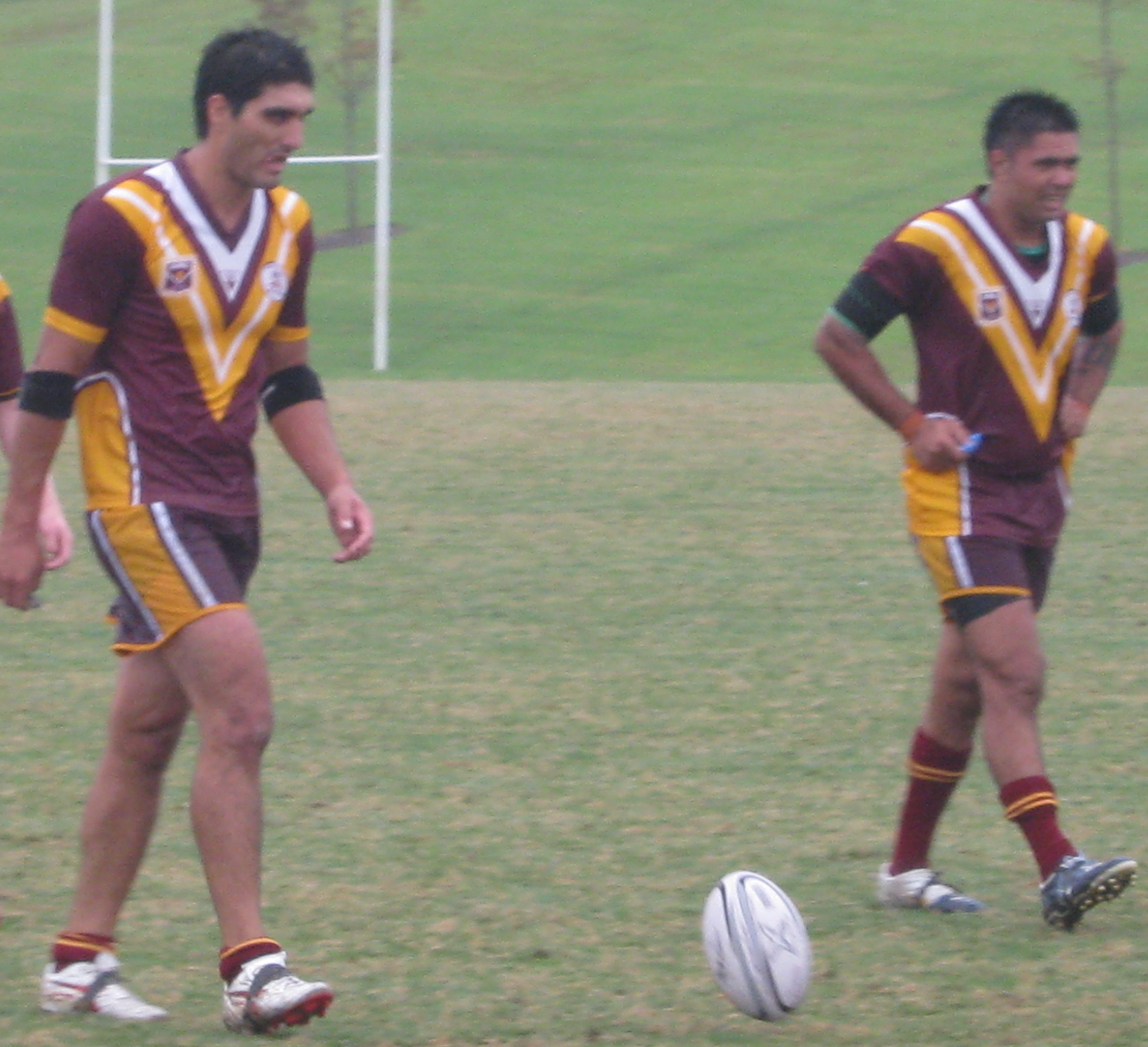 The Hibiscus Coast Raiders vs Papatoetoe Jaguars on 26 March 2011 at Stanmore Bay